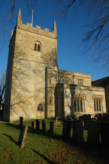 Church of England parish church of All Saints, Spelsbury, Oxfordshire: view of the tower and west end of the nave from the south